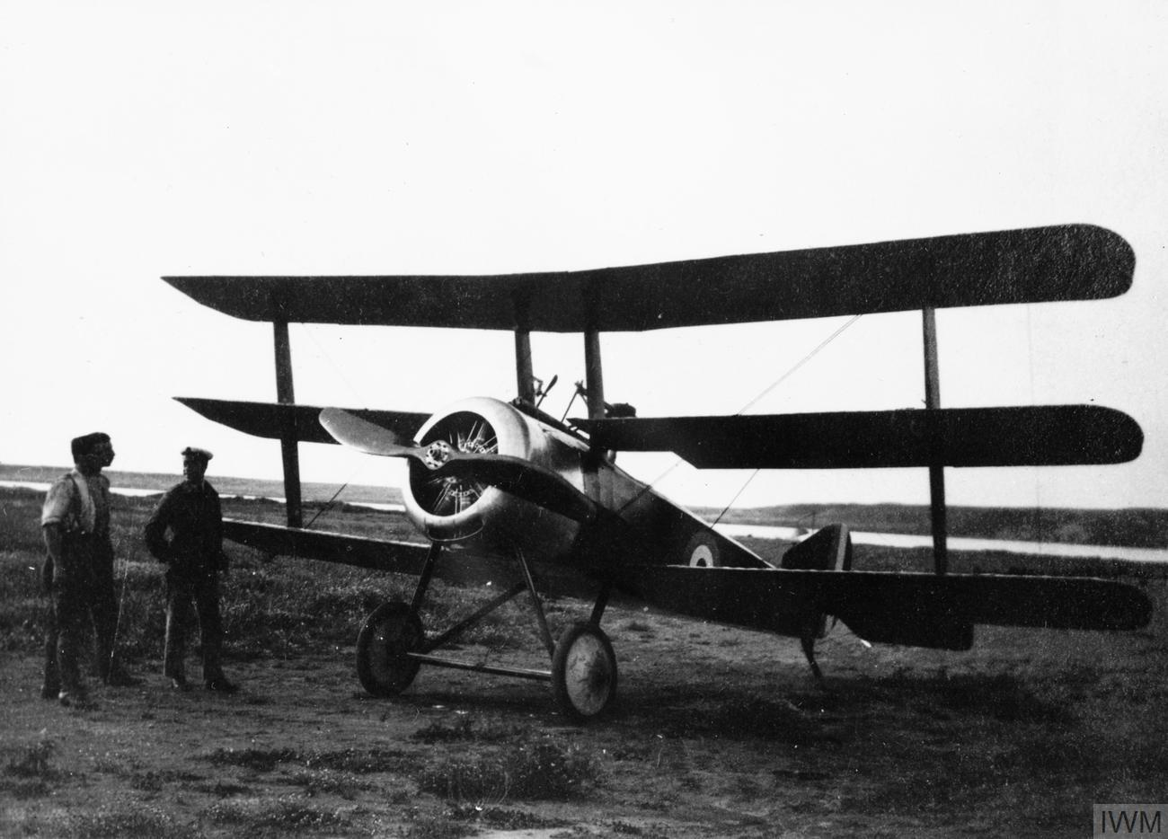 Sopwith Triplane, N5431, of C Squadron, No. 2 (Naval) Wing, on the ground at Mudros. N5431 was the only Triplane to serve overseas with the RNAS, and accounted for five enemy machines in the Aegean theatre in 1917, while flown by Flight Sub-lieutenant H T Mellings. After hitting a wall on landing in 1918, she was broken up and parts were used to construct the Alcock A.1 Scout.